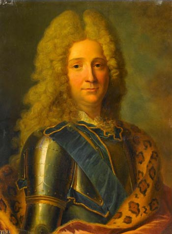 ArtistUnknownTitle